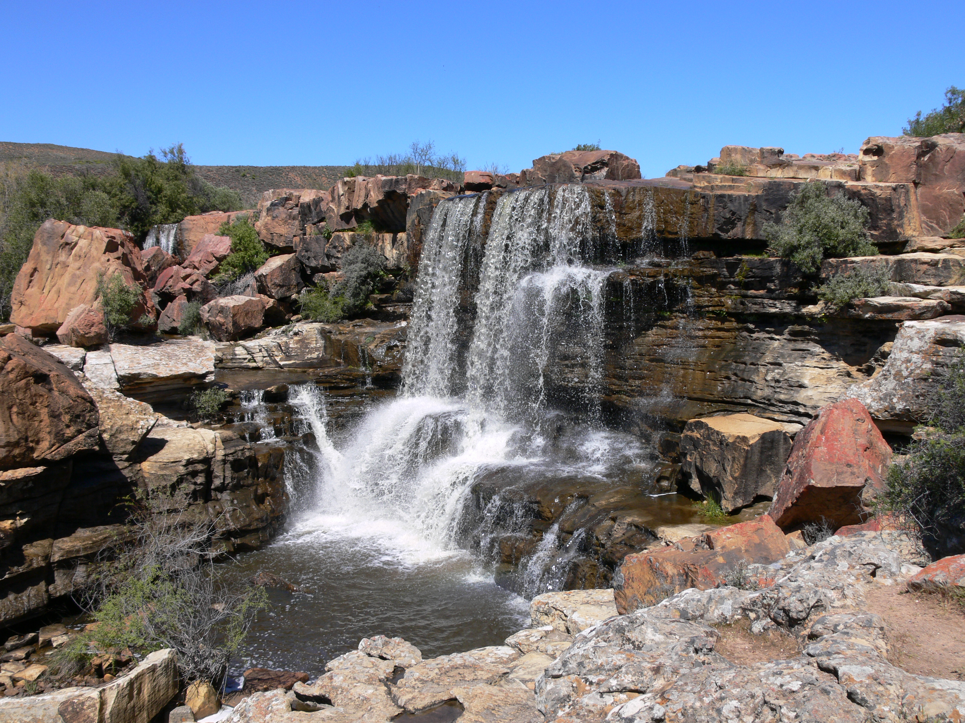 Doorn River Waterfall, a few miles north of Nieuwoudtville on the road to Loeriesfontein, Northern Cape, Soutafrica